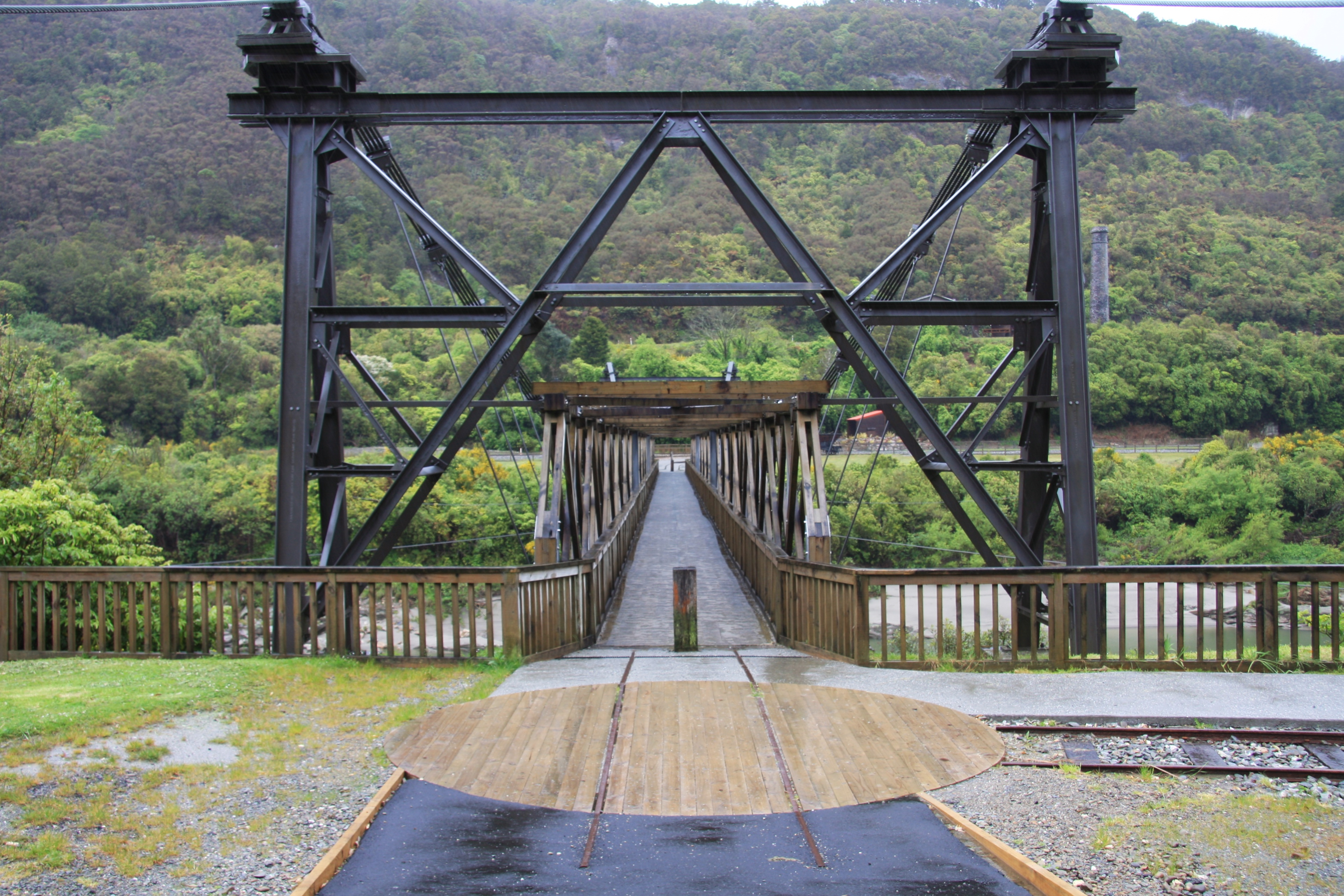 By the 1880s the Brunner mine was producing more coal than any other in New Zealand. This expansion was due, among other things, to the construction of a direct railway network to Greymouth and the Brunner suspension bridge being built in 1876.